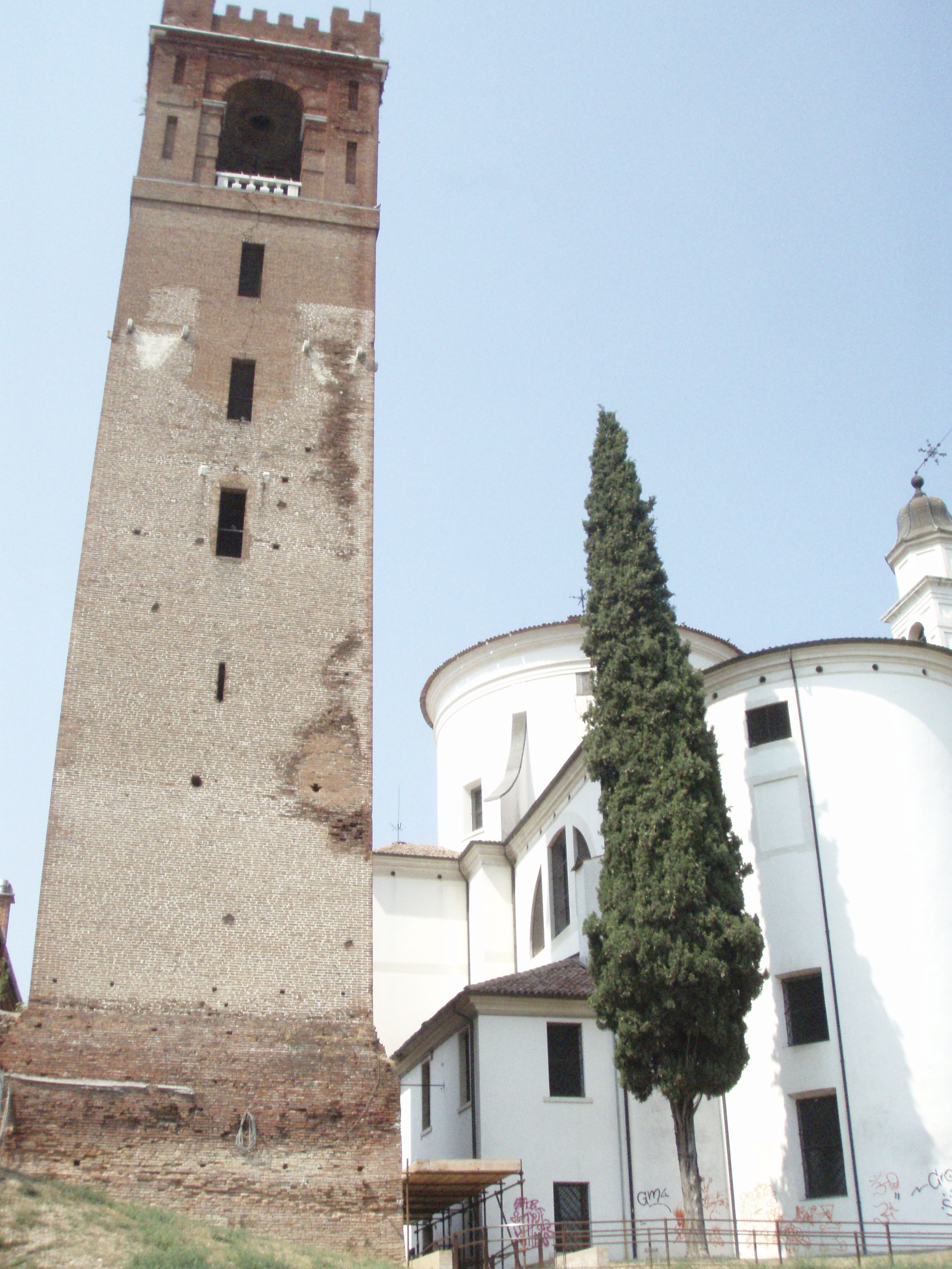 Backside and Campanile of the Dome of Castelfranco